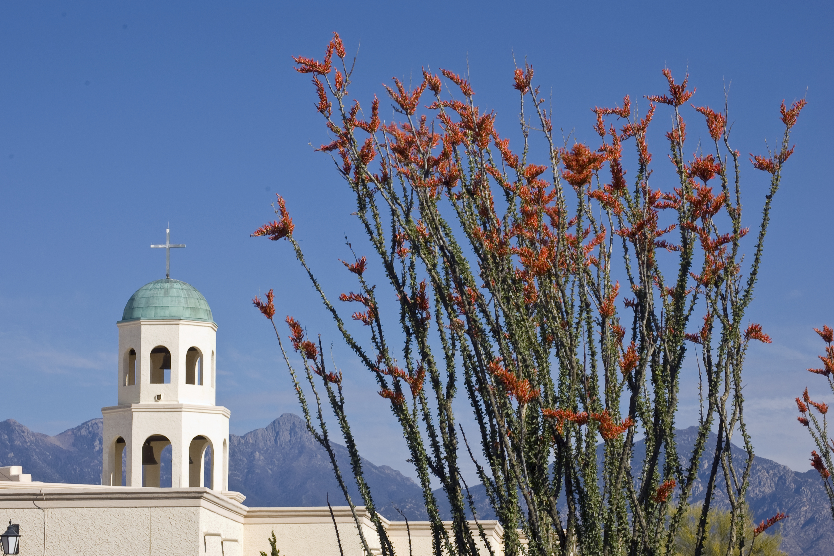 A view, looking east toward the Santa Rita Mountains, of Valley Presbyterian Church in Green Valley, Arizona.